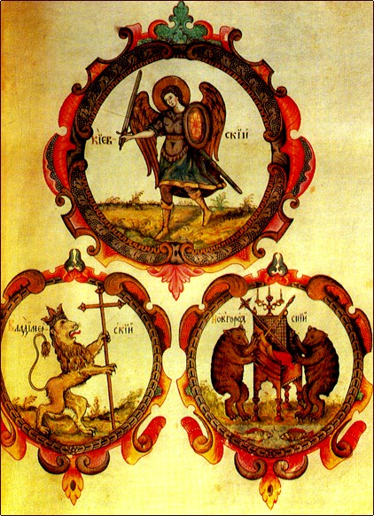 Emblems of lands of Kiev, Vladimir and Novgorod. Tsarskiy titulyarnik